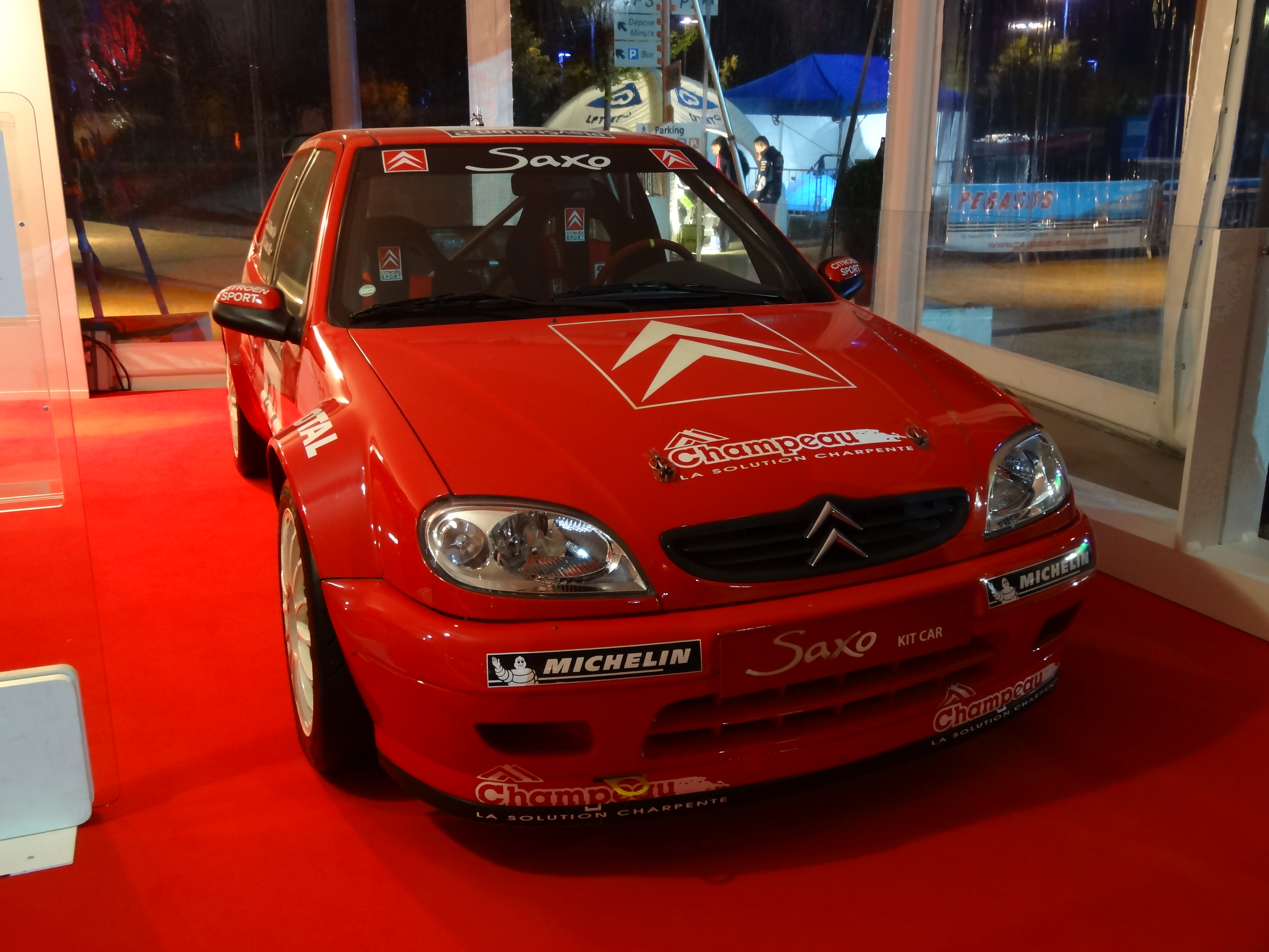 Rallye de France Alsace 2013 14 Strasbourg Service Park - Sebastian Loeb Citroen Saxo